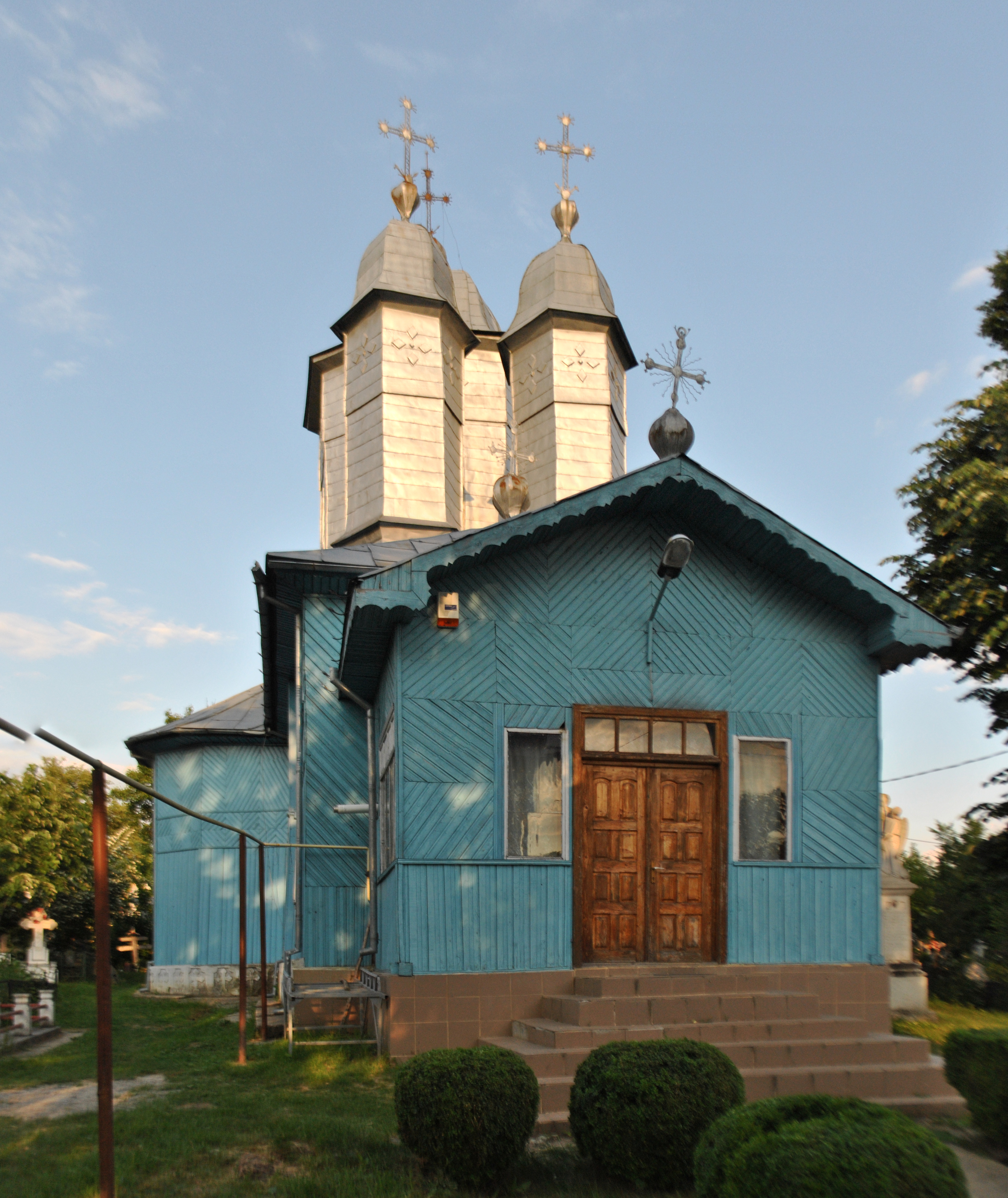 Saint Nicholas' church in Lunca Frumoasă, Pârscov commune, Buzău County, RomaniaRomână: Biserica „Sfântul Nicolae” din Lunca Frumoasă, comuna Pârscov, judeţul Buzău, România